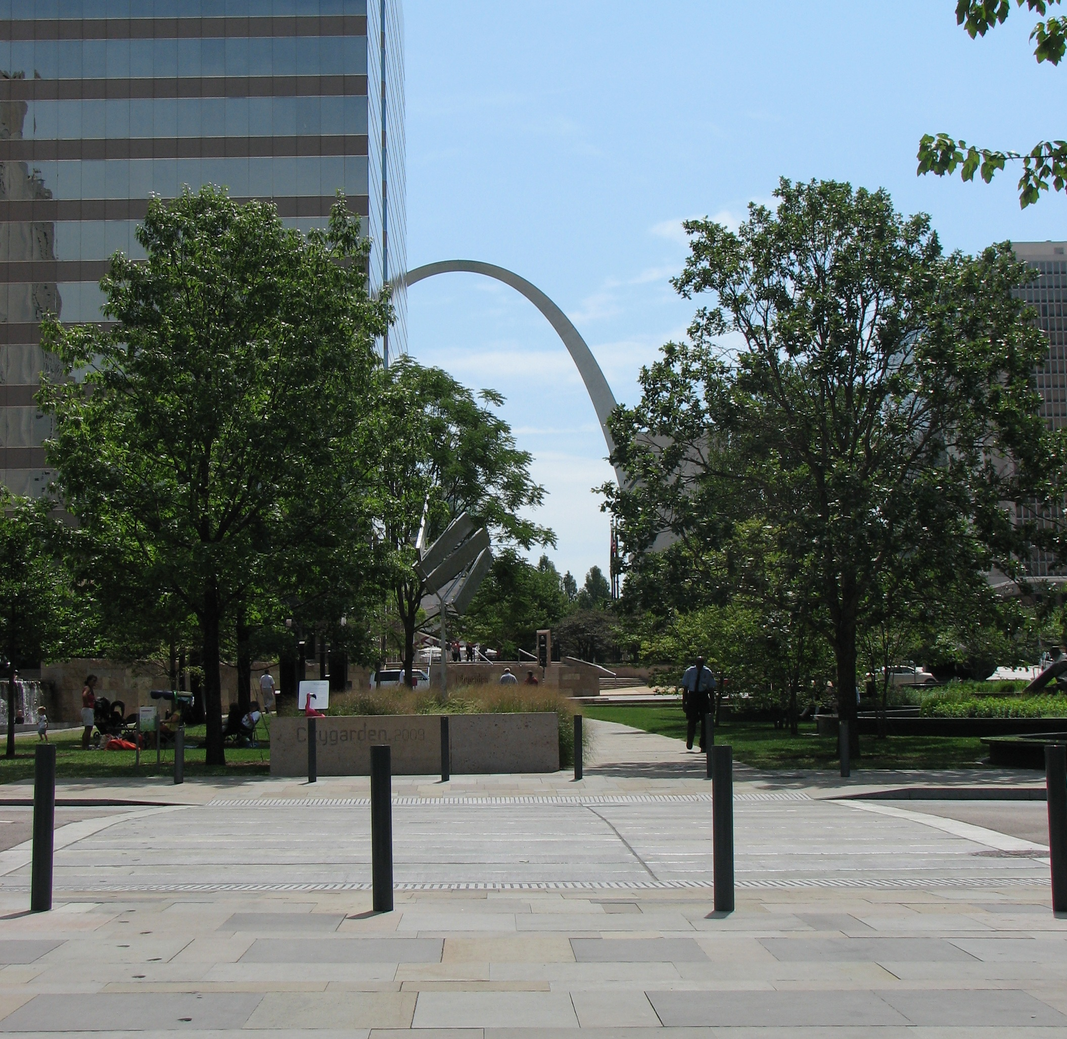 In St. Louis, Missouri, looking across 9th Street in Citygarden